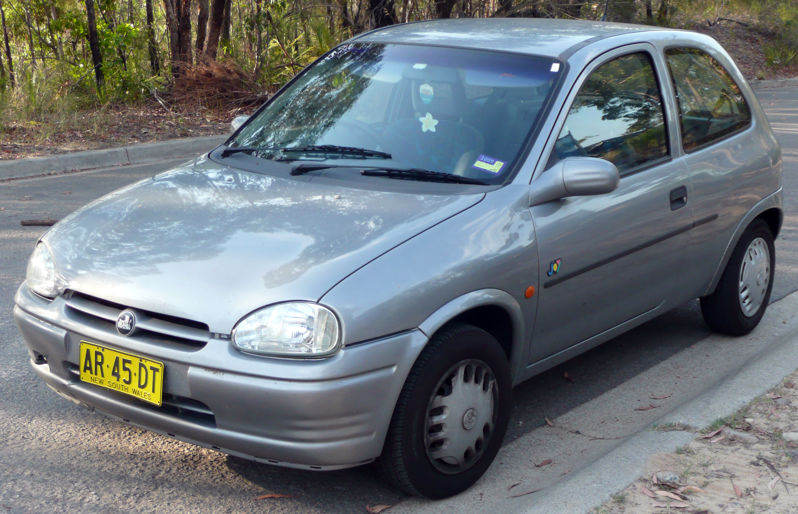 1994–1995 Holden Barina (SB) Joy 3-door hatchback. Photographed in New South Wales, Australia.